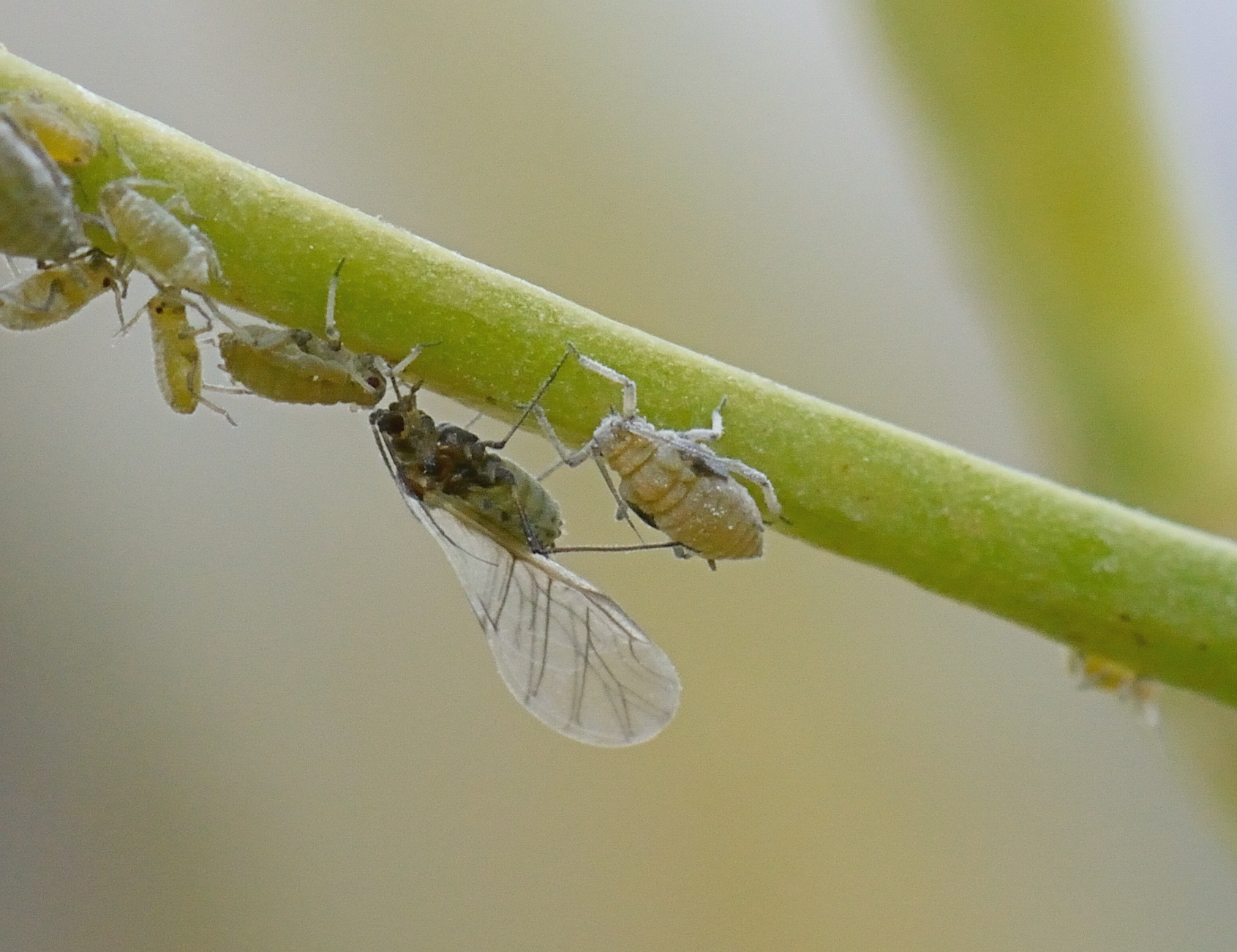 Brevicoryne brassicae with and without wings on Brassica oleracea curley kale